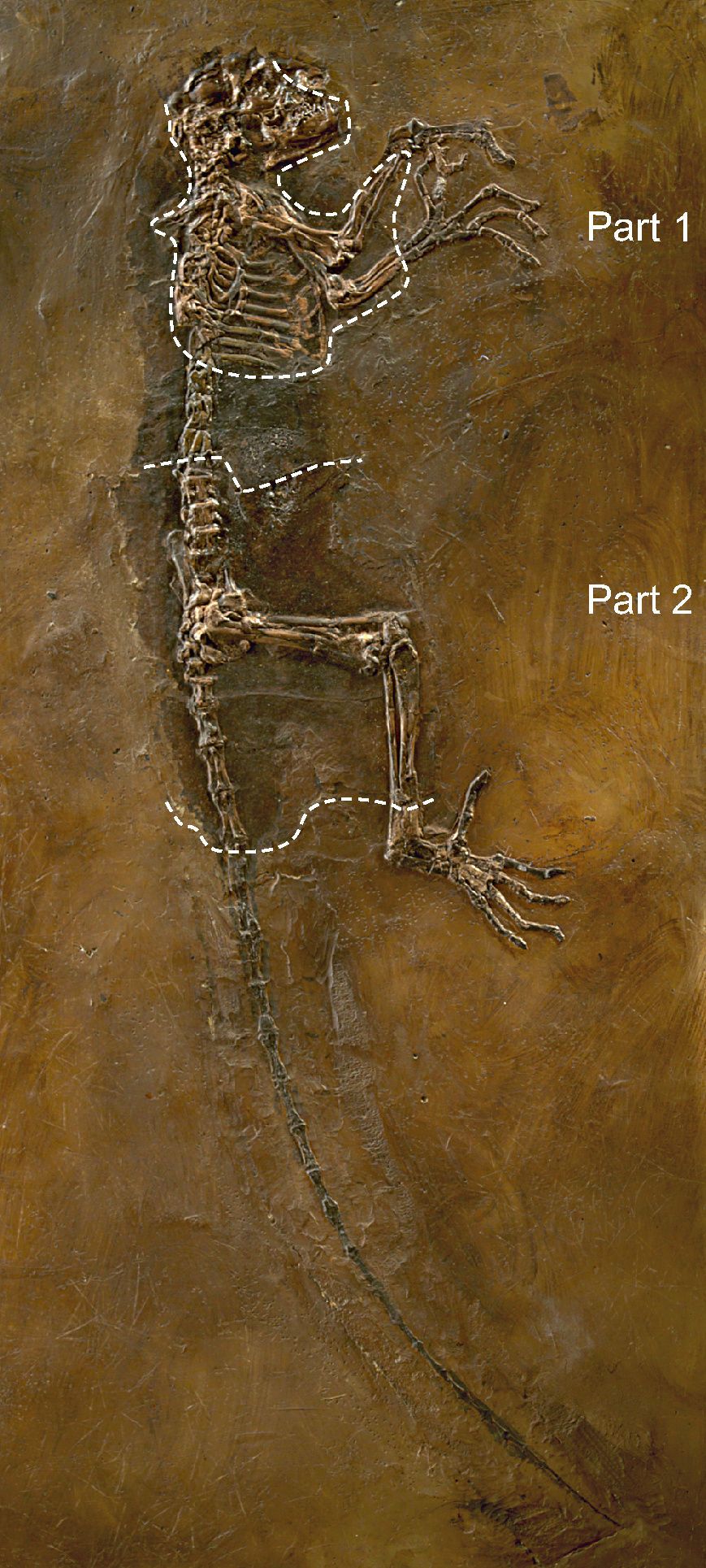 Darwinius masillae, new genus and species, from Messel in Germany. Cropped version of Plate B (WDC-MG-210) left side of holotype (reversed for comparison with plate A). Plate shows counterpart of the skeleton. Parts 1 and 2 (enclosed in dashed lines) are genuine; remainder of plate B was fabricated during preparation.